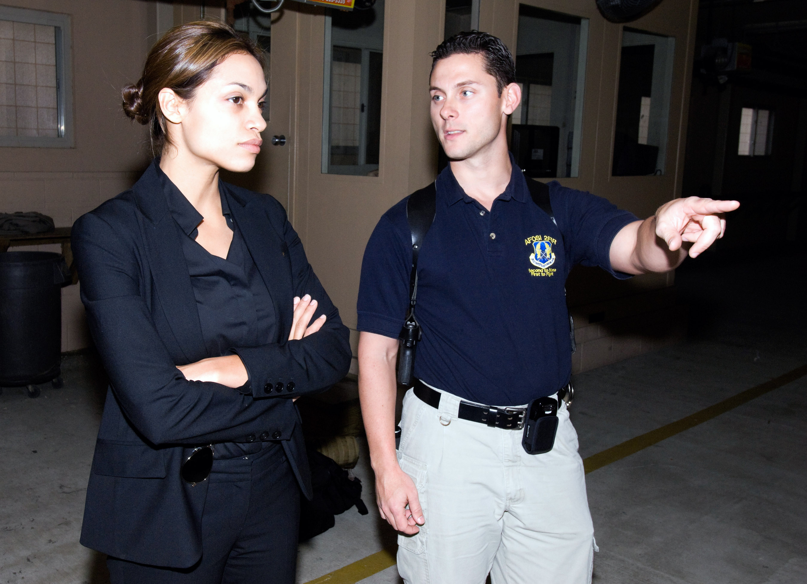 Air Force provides support in new Hollywood movie "Eagle Eye". Rosario Dawson receives a safety briefing from Special Agent Patrick McGee at the firing range at Andrews Air Force Base, Md. Ms. Dawson was at the base researching her role as a Special Agent with the Air Force Office of Special Investigations in the movie "Eagle Eye." (U.S. Air Force photo/Mike Hastings)